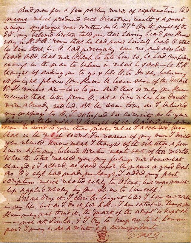 Letter 29 to A.P. Sinnett